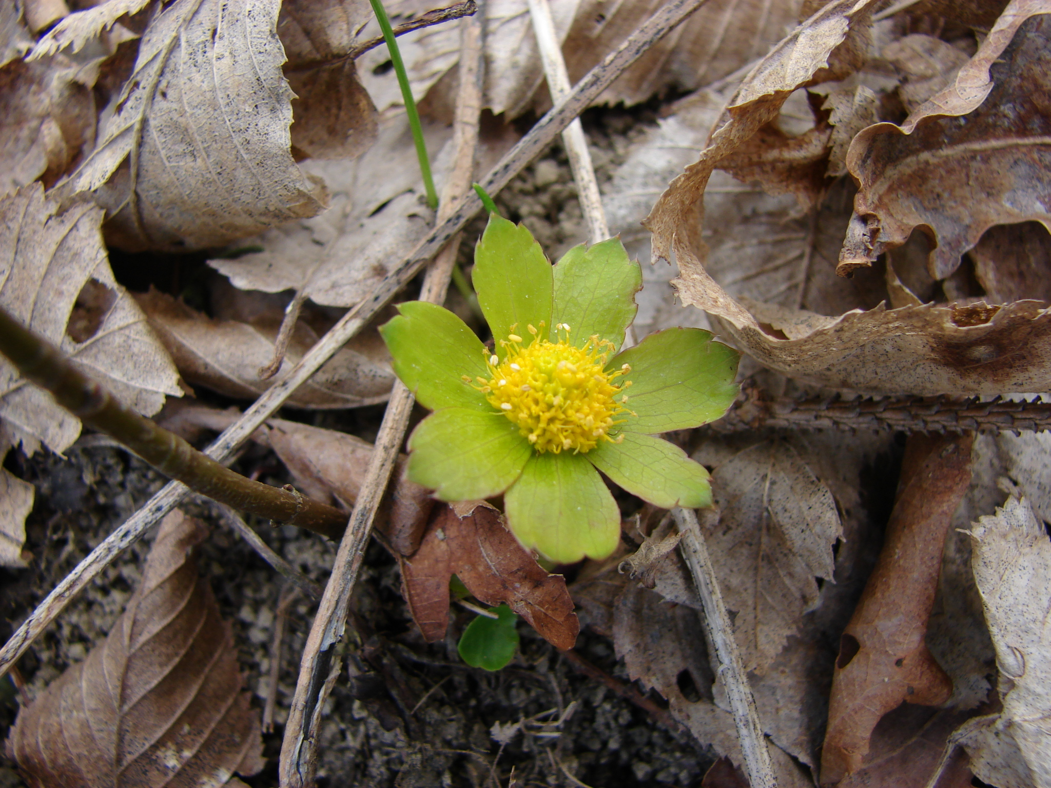 Hacquetia epipactis in Natural monument Pod Vrchy in Zlín District, Czech Republic.